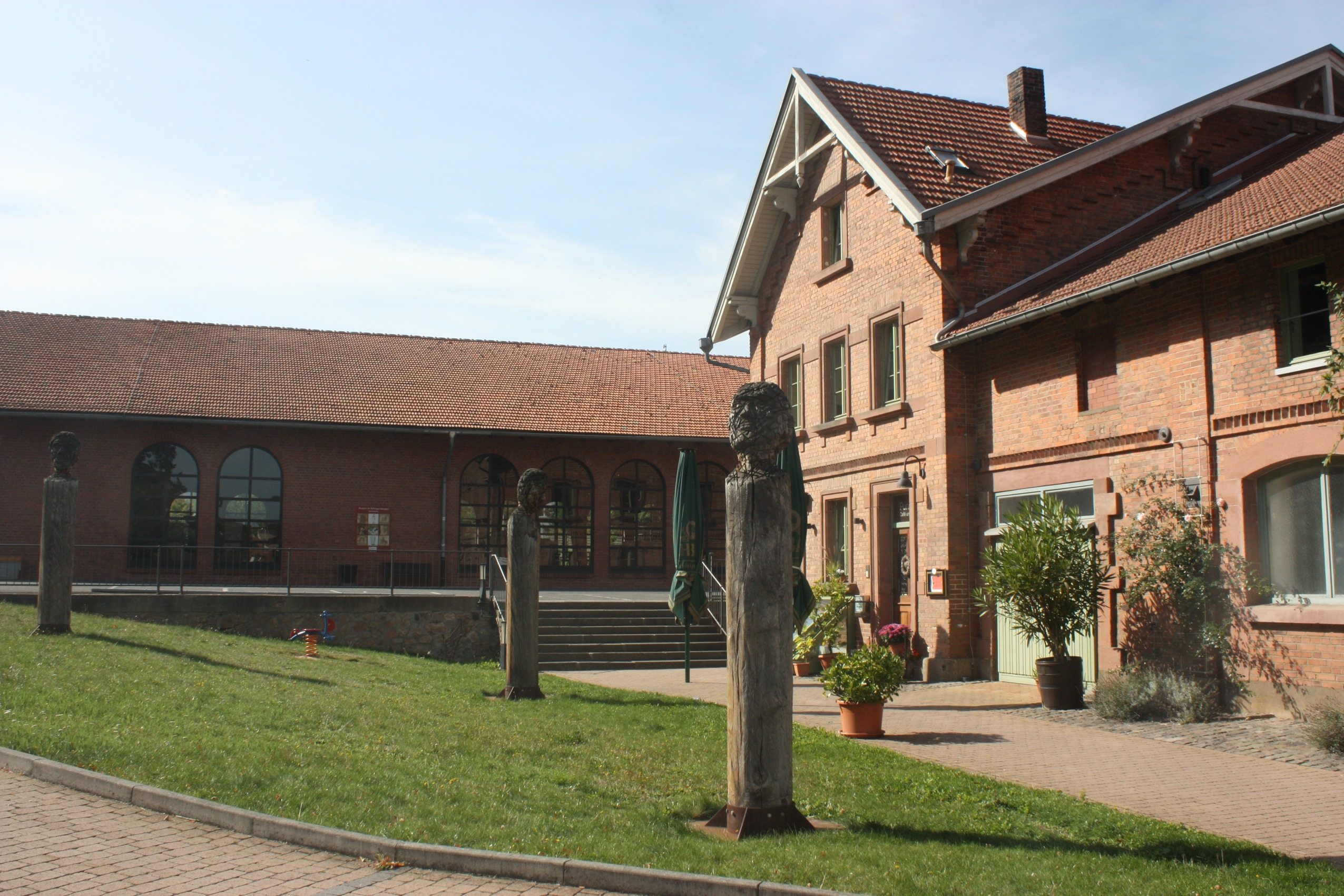 Bad Kreuznach, a part of the manor estate Bangert and the roman hall